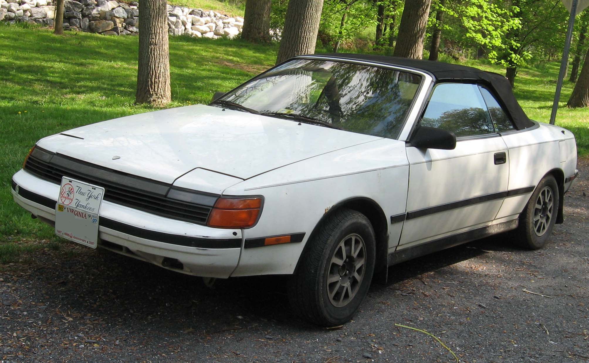 1986-1989 Toyota Celica photographed in USA.